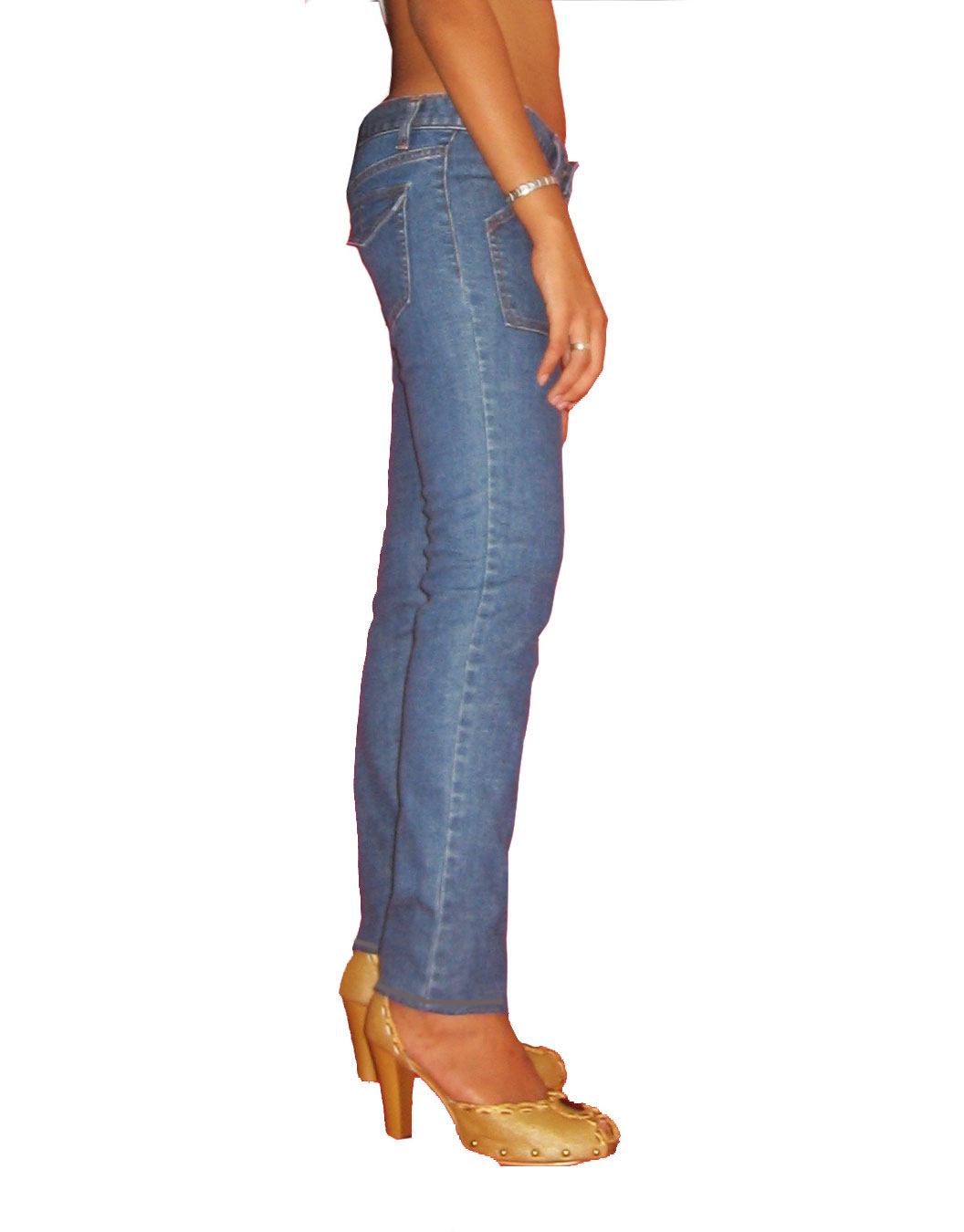 skinny jeans, flap back pocket, front patch pocket, form fitted